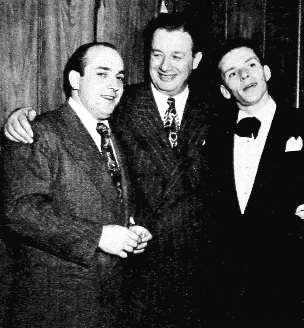 Photo of Hank Sanicola (left), Toots Shor (centre) and Frank Sinatra (right) from ‘’Modern Screen’’ magazine.